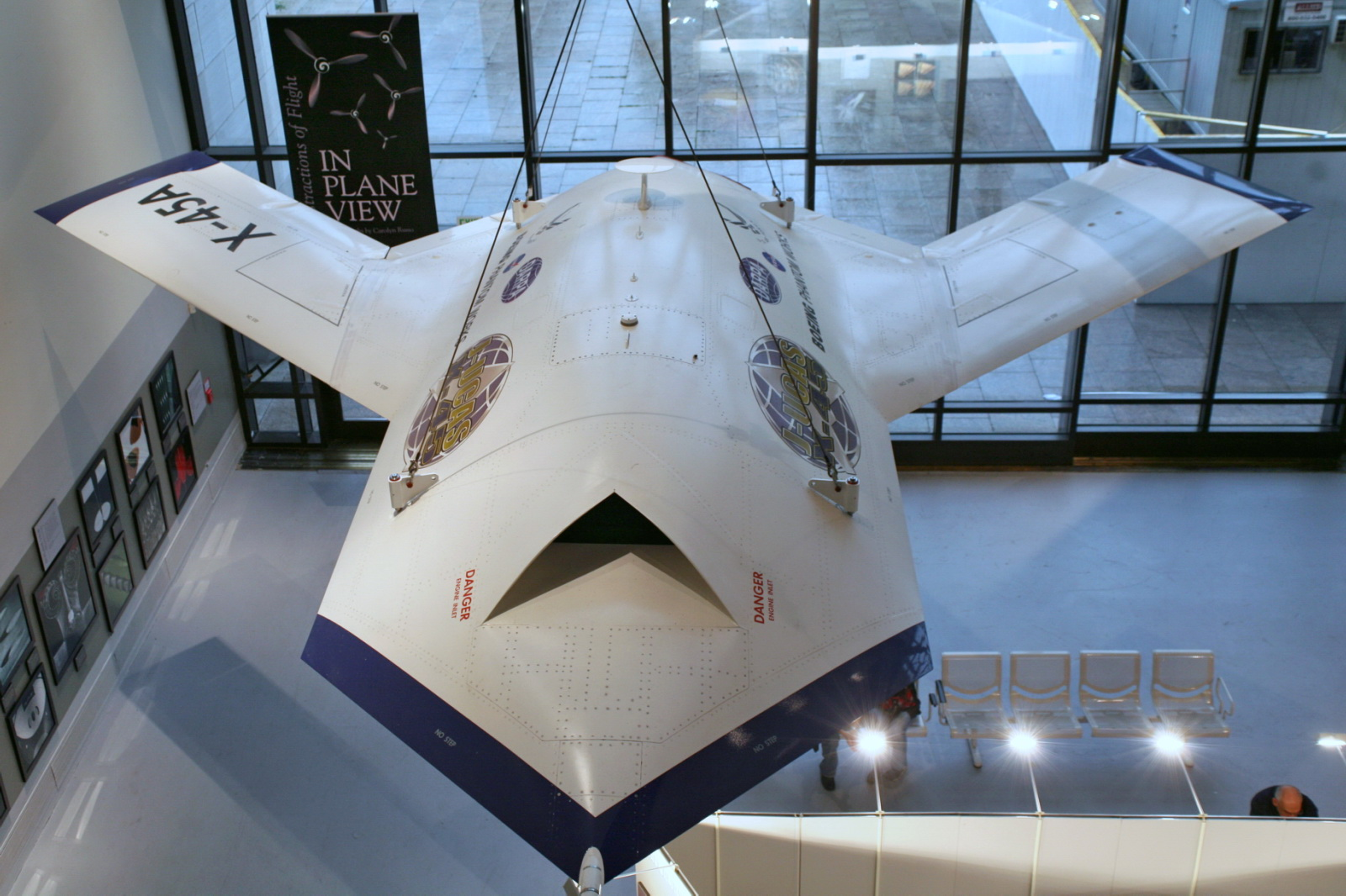 First flown in 2002, the X-45A was the first modern UAV designed specifically for combat strike missions. The stealthy, swept-wing jet has fully retractable landing gear and a composite, fiber-reinforced epoxy skin. Its fuselage houses two internal weapons bays. The X-45 project was first managed by the Defense Advanced Research Project Agency, but in 2003 the Air Force and Navy consolidated the X-45 and X-47 programs under the Joint Unmanned Combat Air System Office.